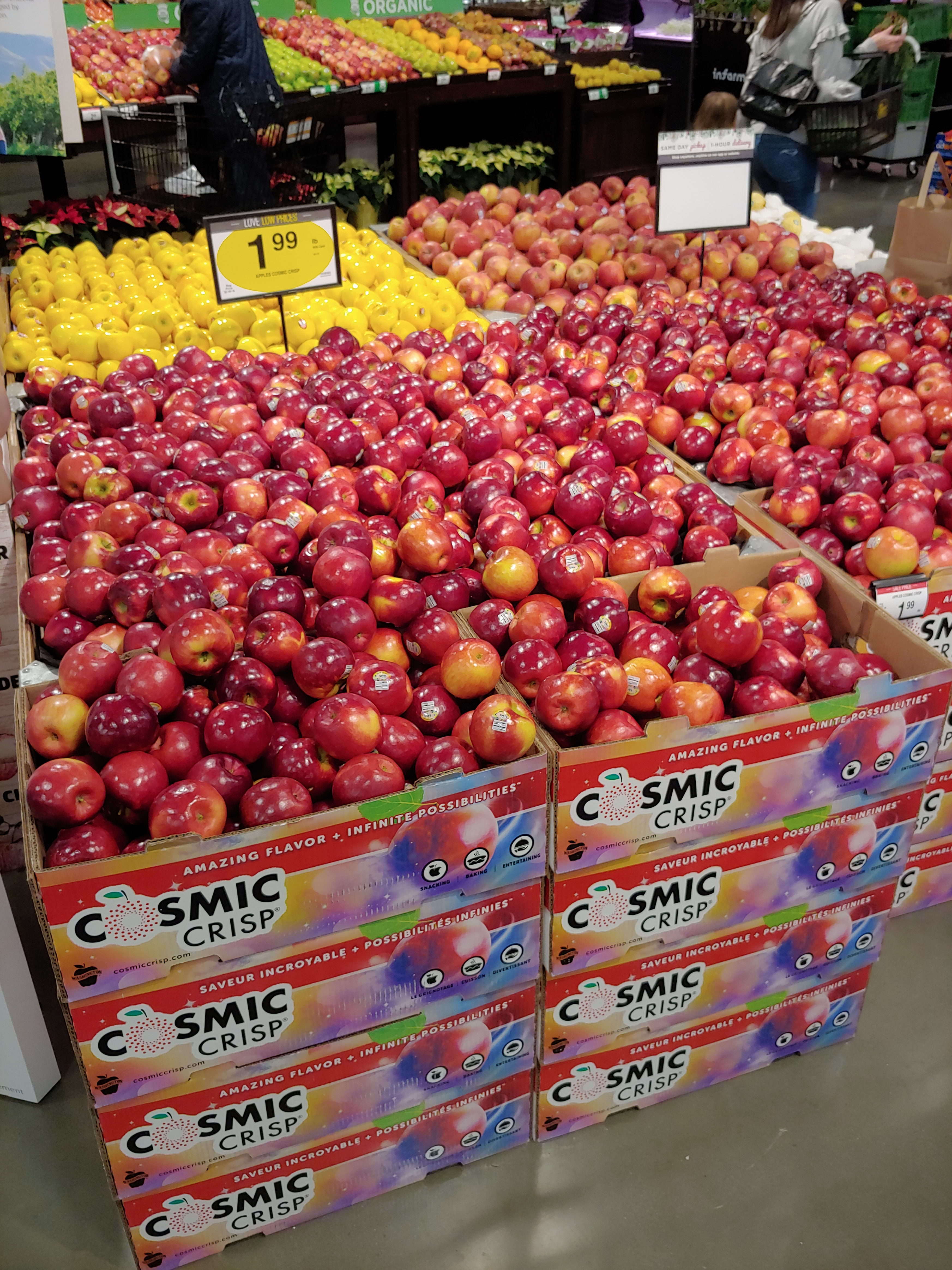 A Cosmic Crisp apple display at QFC grocery two days after they first went on sale in the Pacific Northwest.